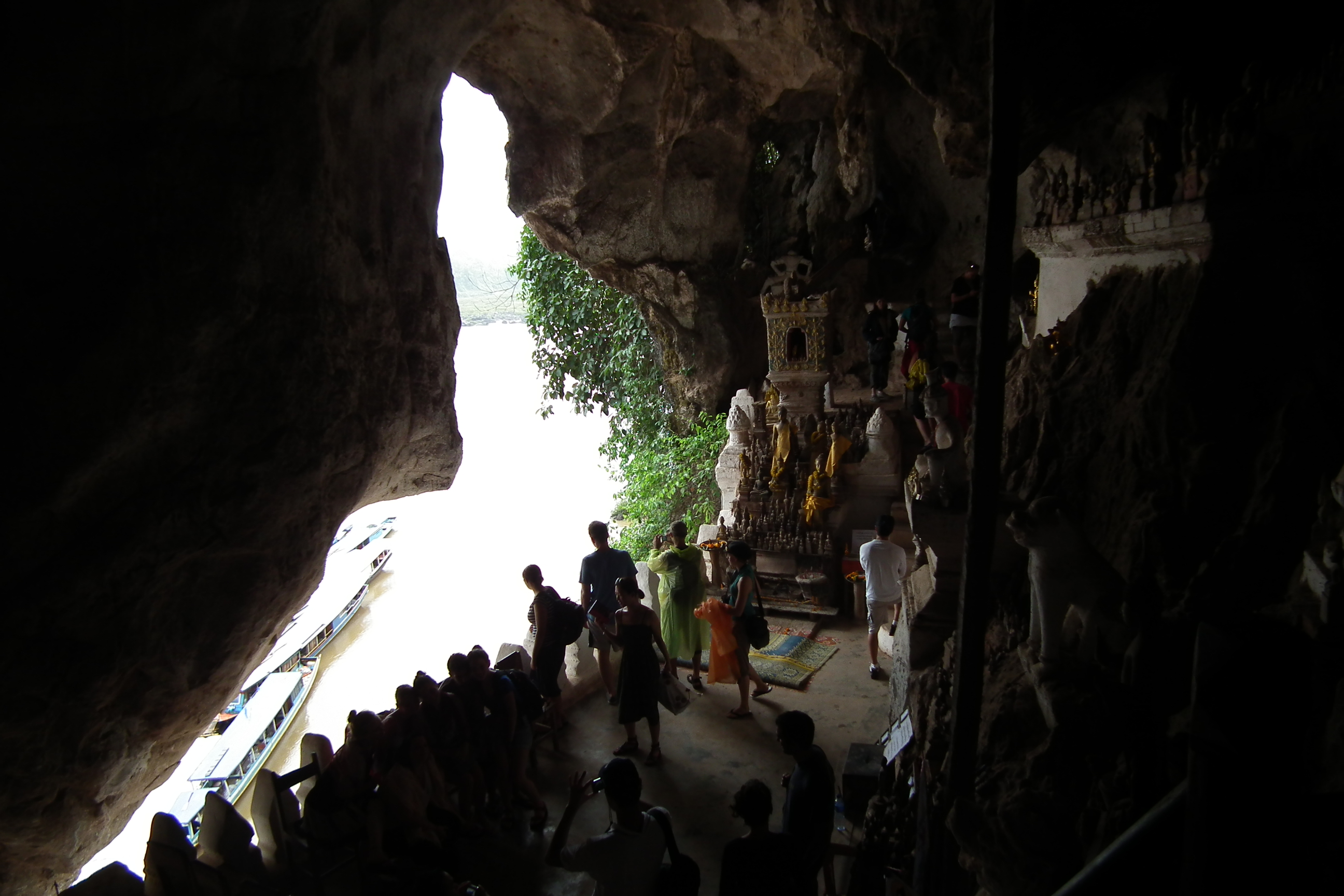 Near Pak Ou (mouth of the Ou river) the Tham Ting (lower cave) and the Tham Theung (upper cave) are caves overlooking the Mekong River 25 km from Luang Prabang, Laos. They are a group of caves on the left side of the Mekong river, about two hours upstream from the centre of Luang Prabang, and have become well known by tourists. The caves are noted for their miniature Buddha sculptures. Hundreds of very small and mostly damaged wooden Buddhist figures are laid out over the wall shelves. They take many different positions, including meditation, teaching, peace, rain, and reclining (nirvana).